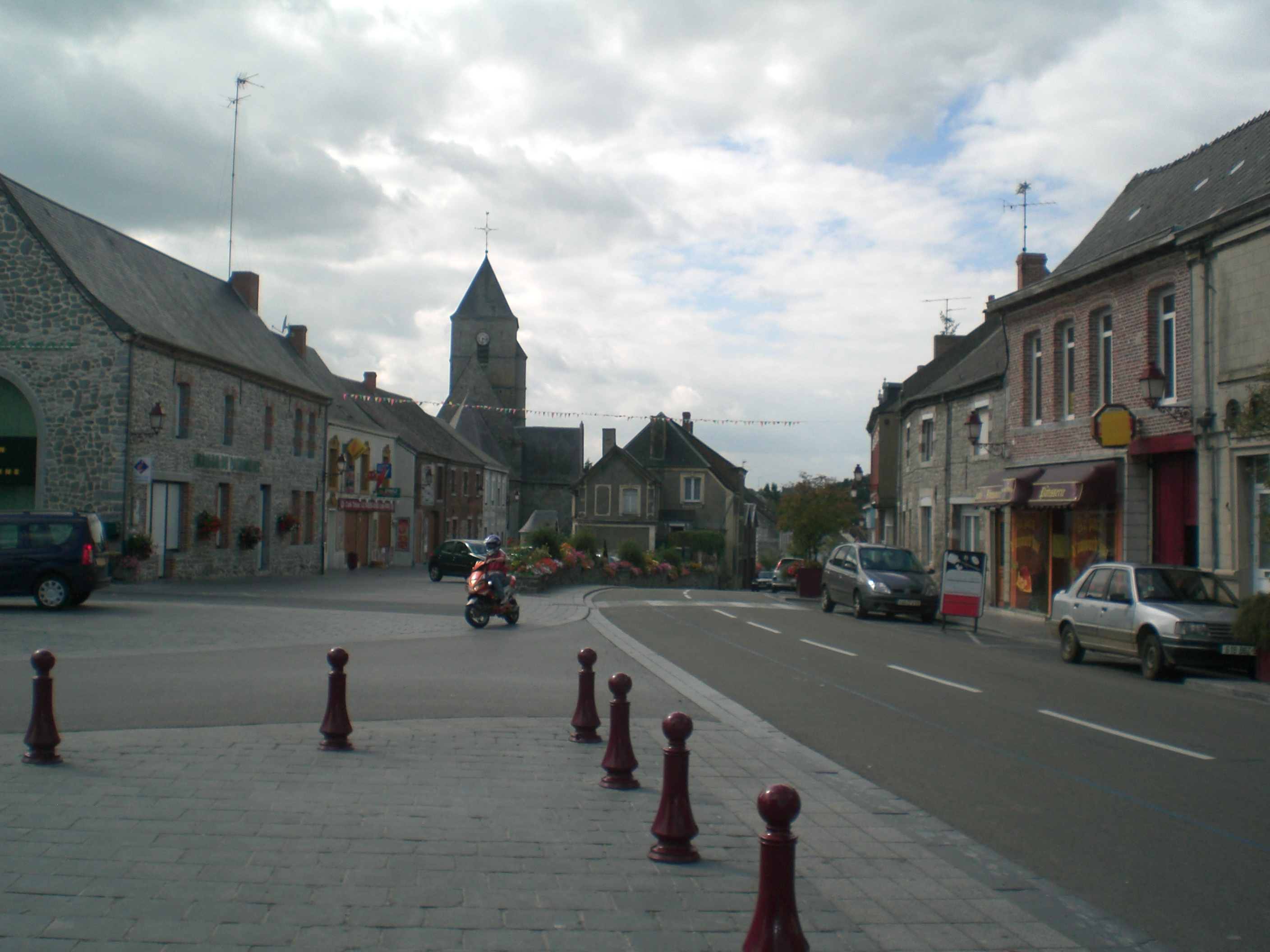 road of cousolre